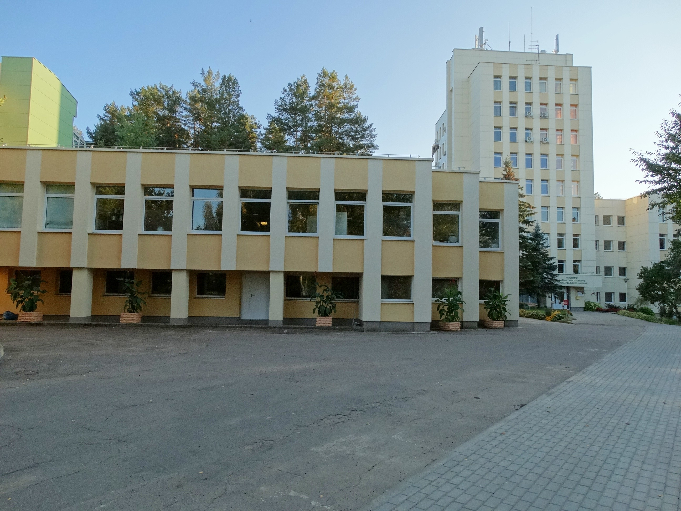 Rehabilitation hospital, Abromiškės, Elektrėnai Municipality, Lithuania